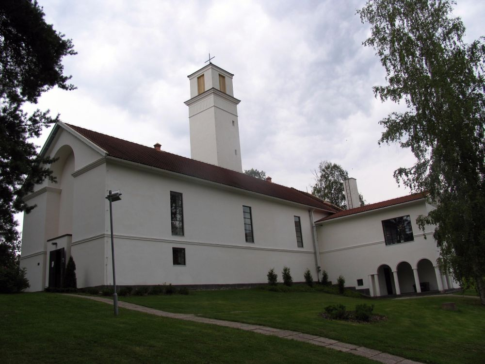 Muurame Church in Muurame, Finland